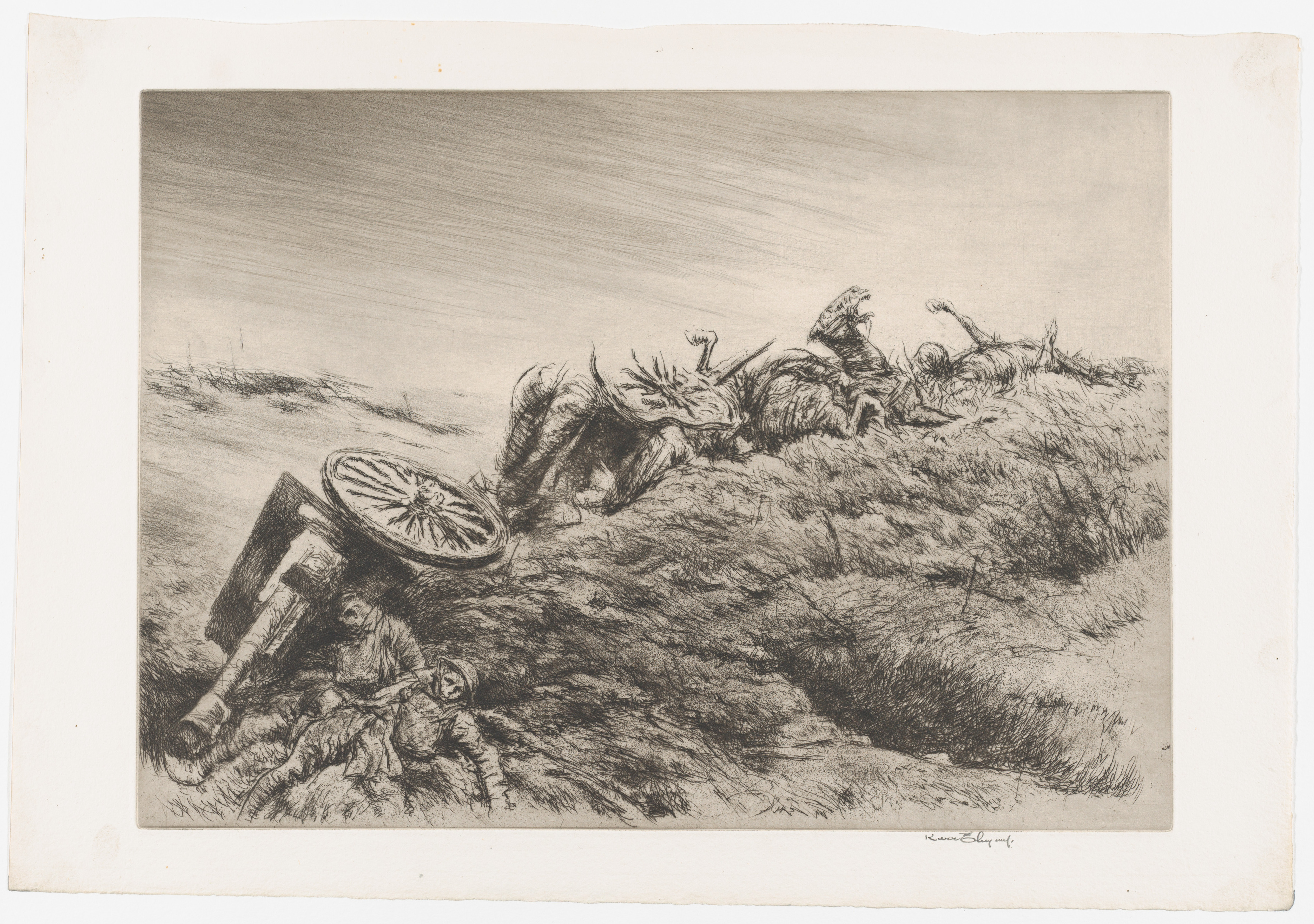 Print; Prints